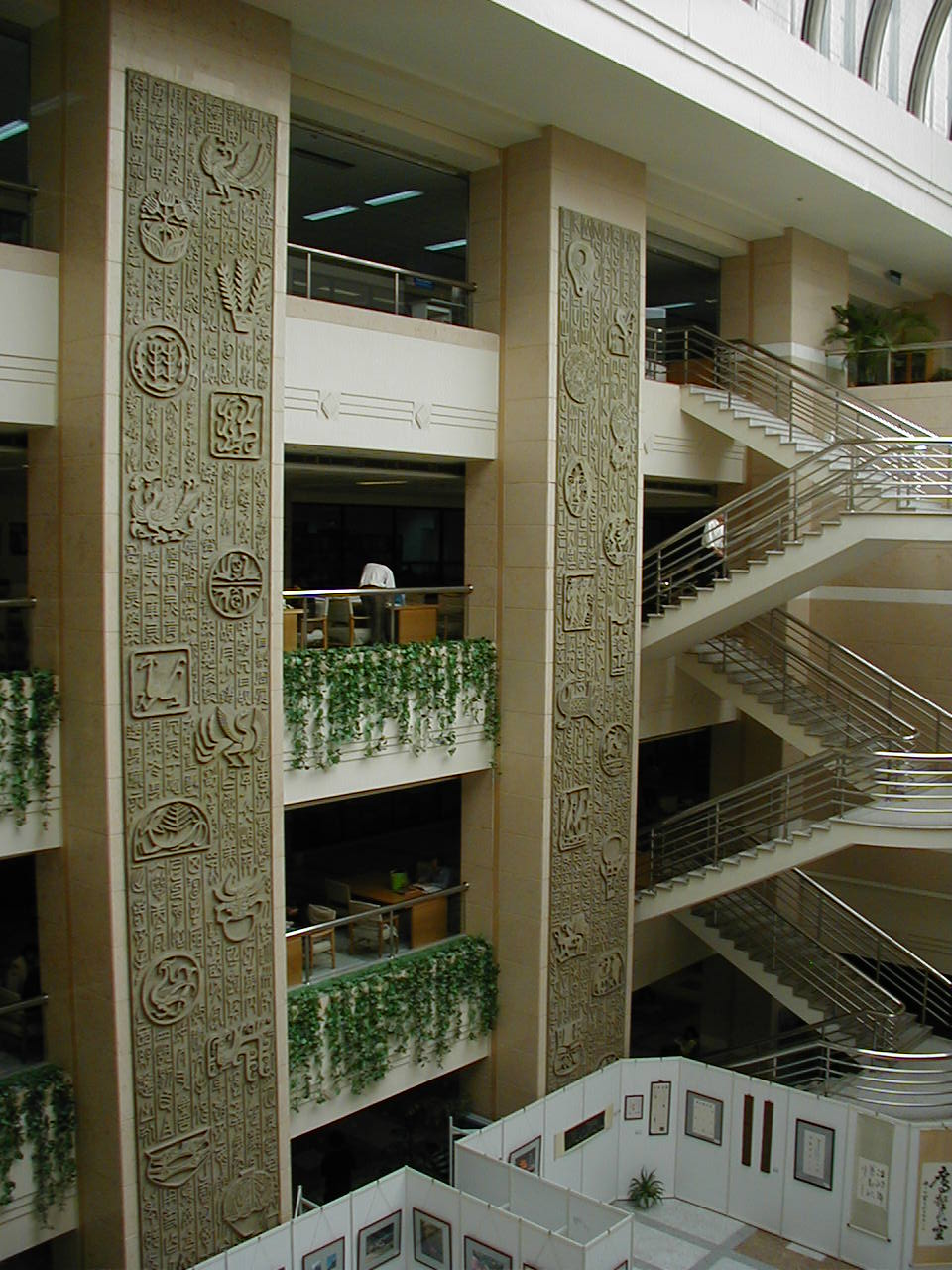 interior of the Shanghai Library